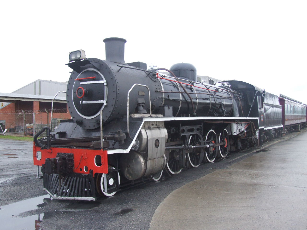 Class 19C 2439 newly arrived at the George Railway Museum